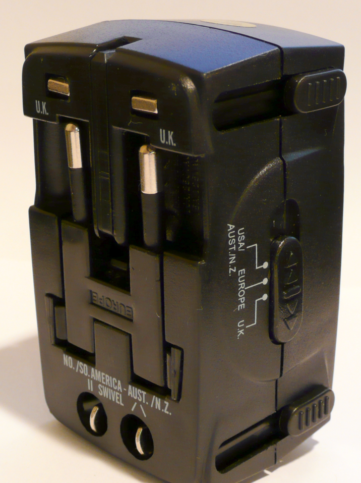 A photo of a plug adapter taken by me, User:Mets501.